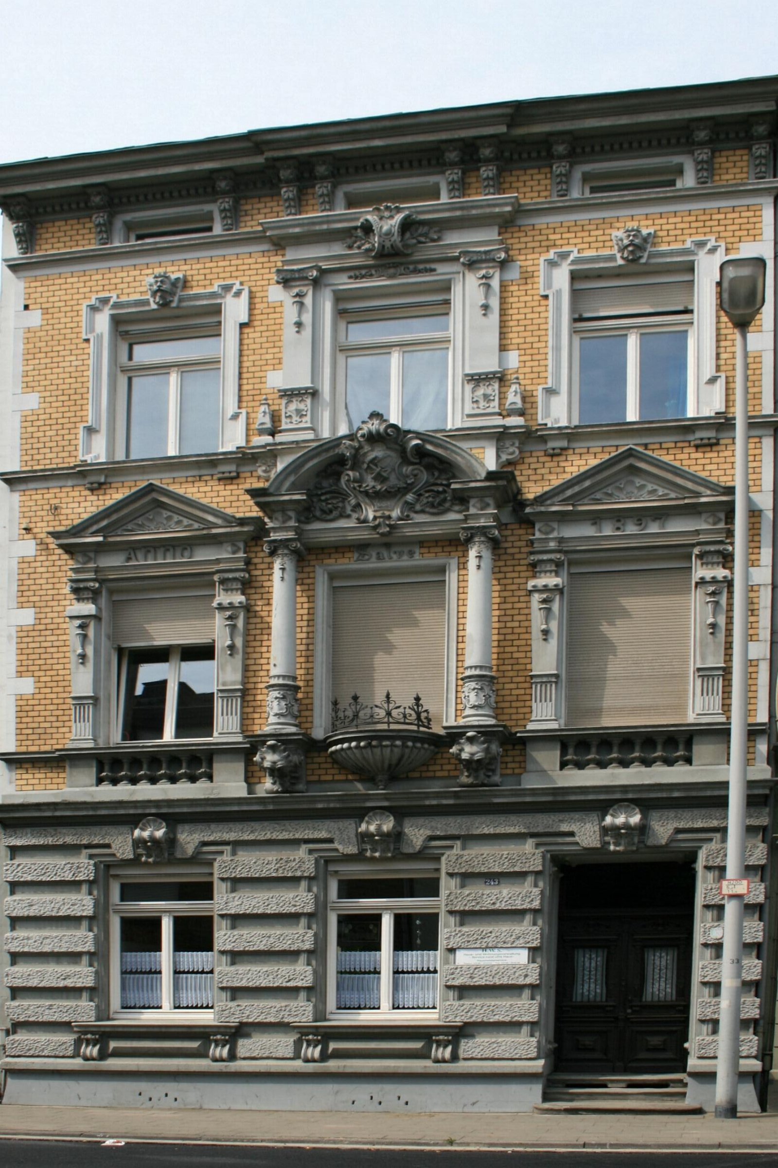 Cultural heritage monument No. F 006 in Mönchengladbach